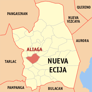 Map of Nueva Ecija showing the location of Aliaga